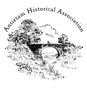 Line drawing of boy standing on stone arched bridge over rivulet with waterfowl surmounted by arced name of organization.